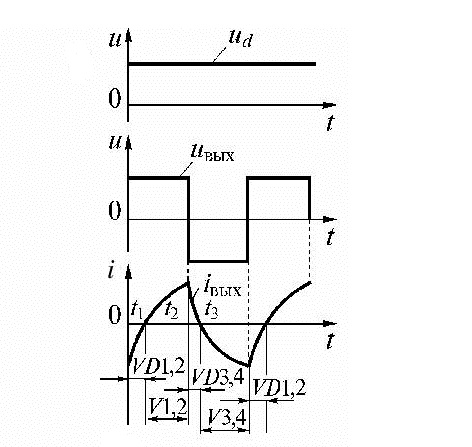 DerevenetsГ